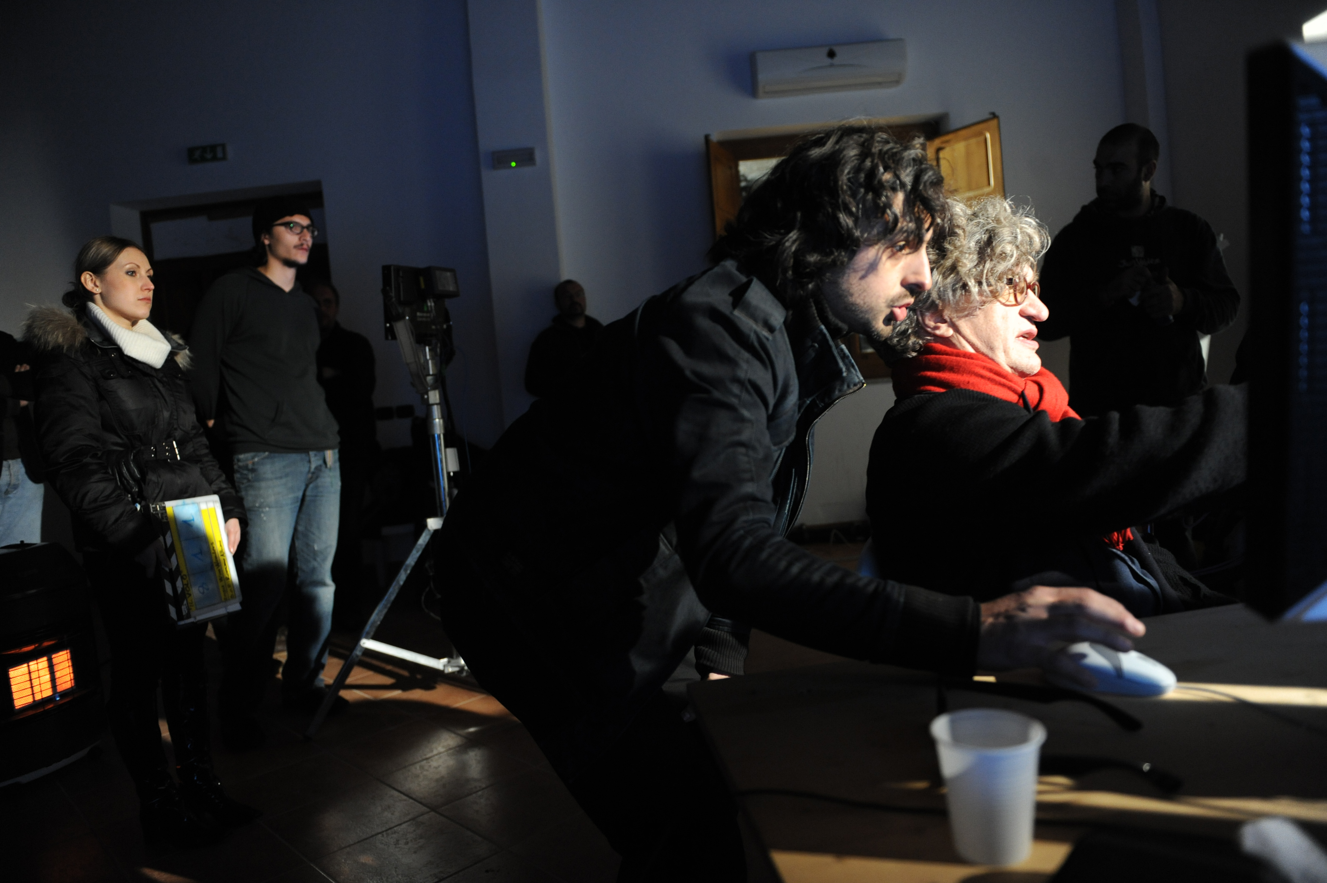 Giuseppe Petitto at work with Wim Wenders. Dec. 18 2009.